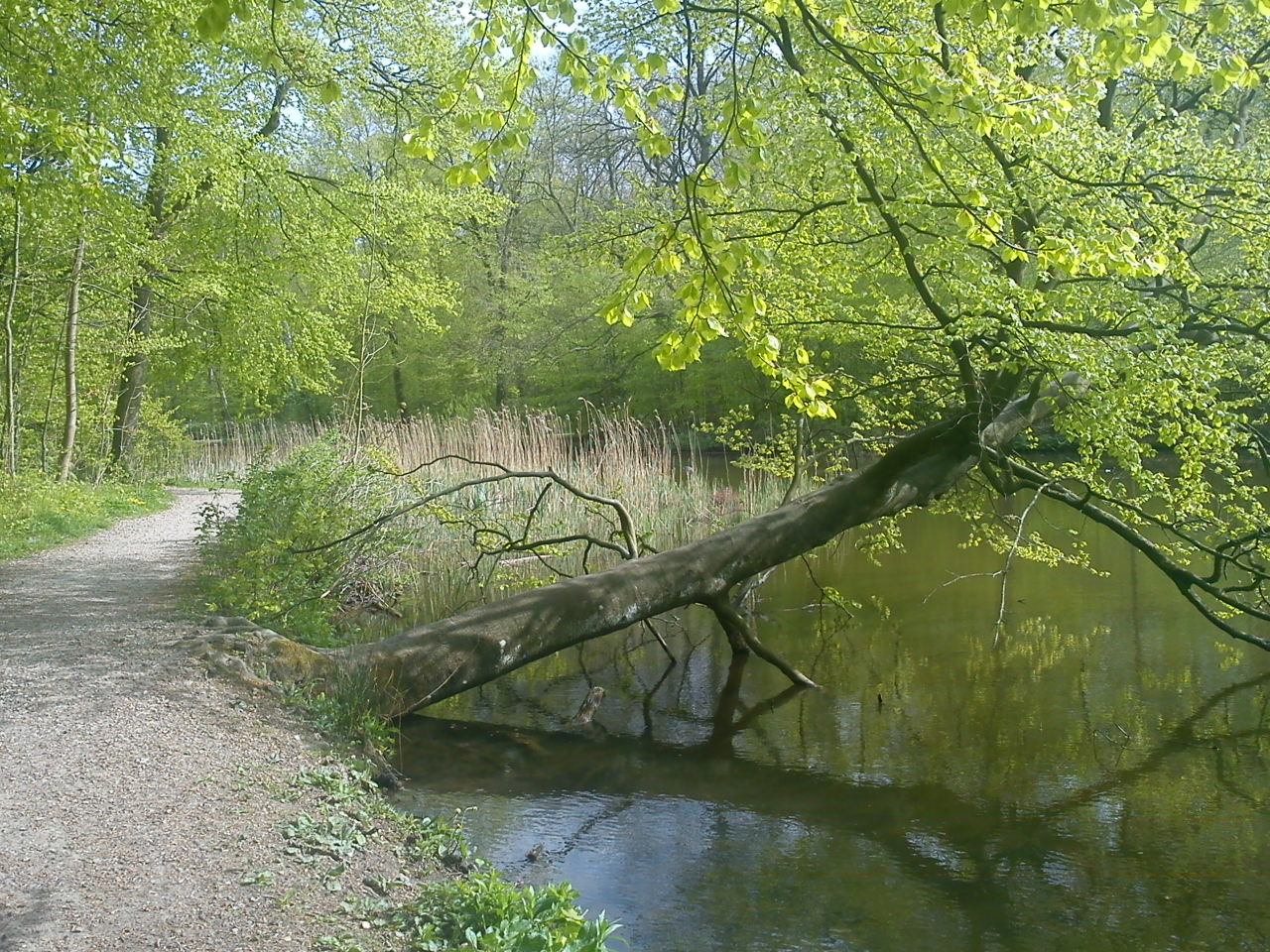 Walkingpath in the Marselisborg Forests. Photograph taken at Svanedam (Swan Pond).